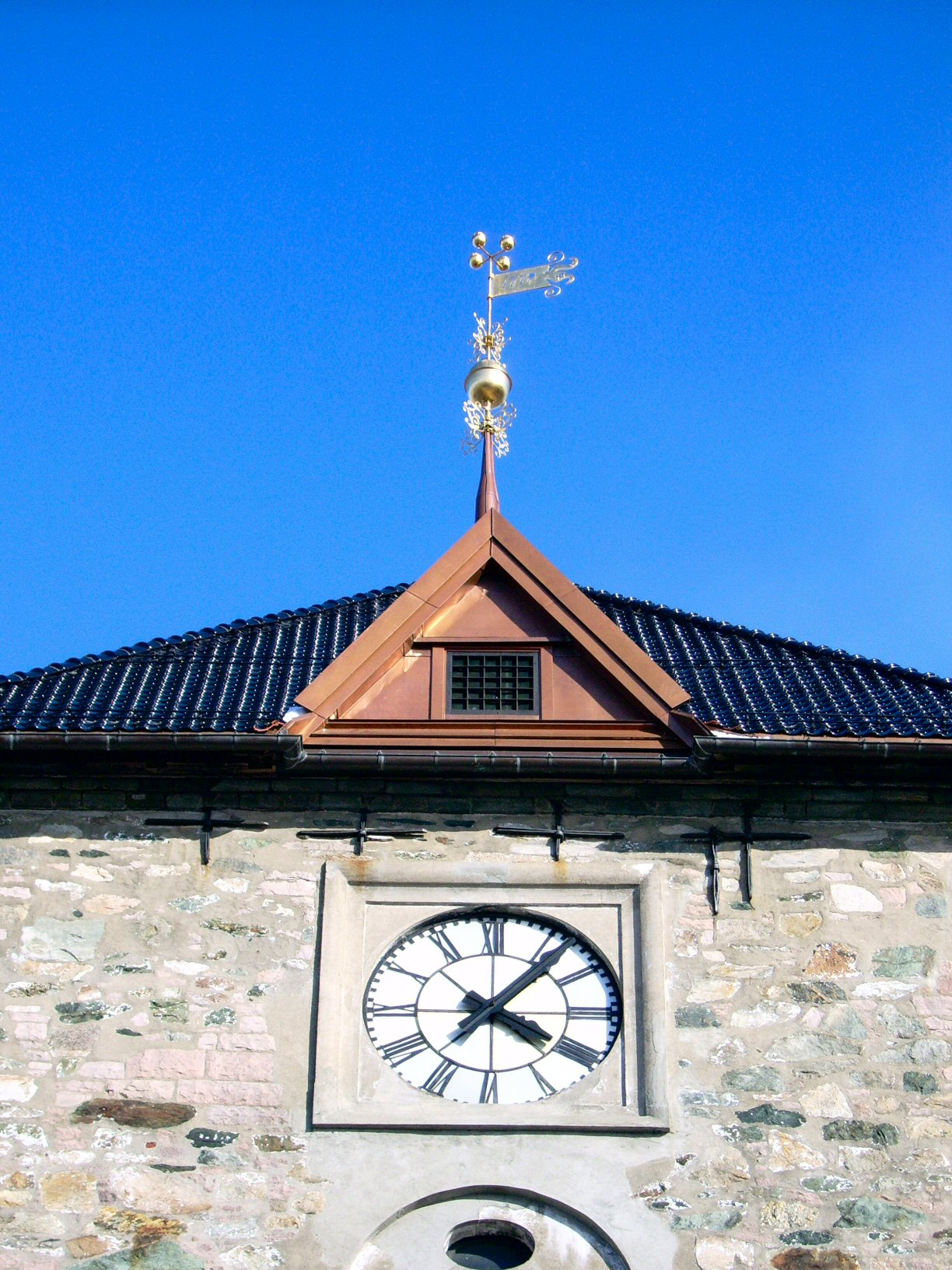 Tower at Our Lady's church, Trondheim, Norway